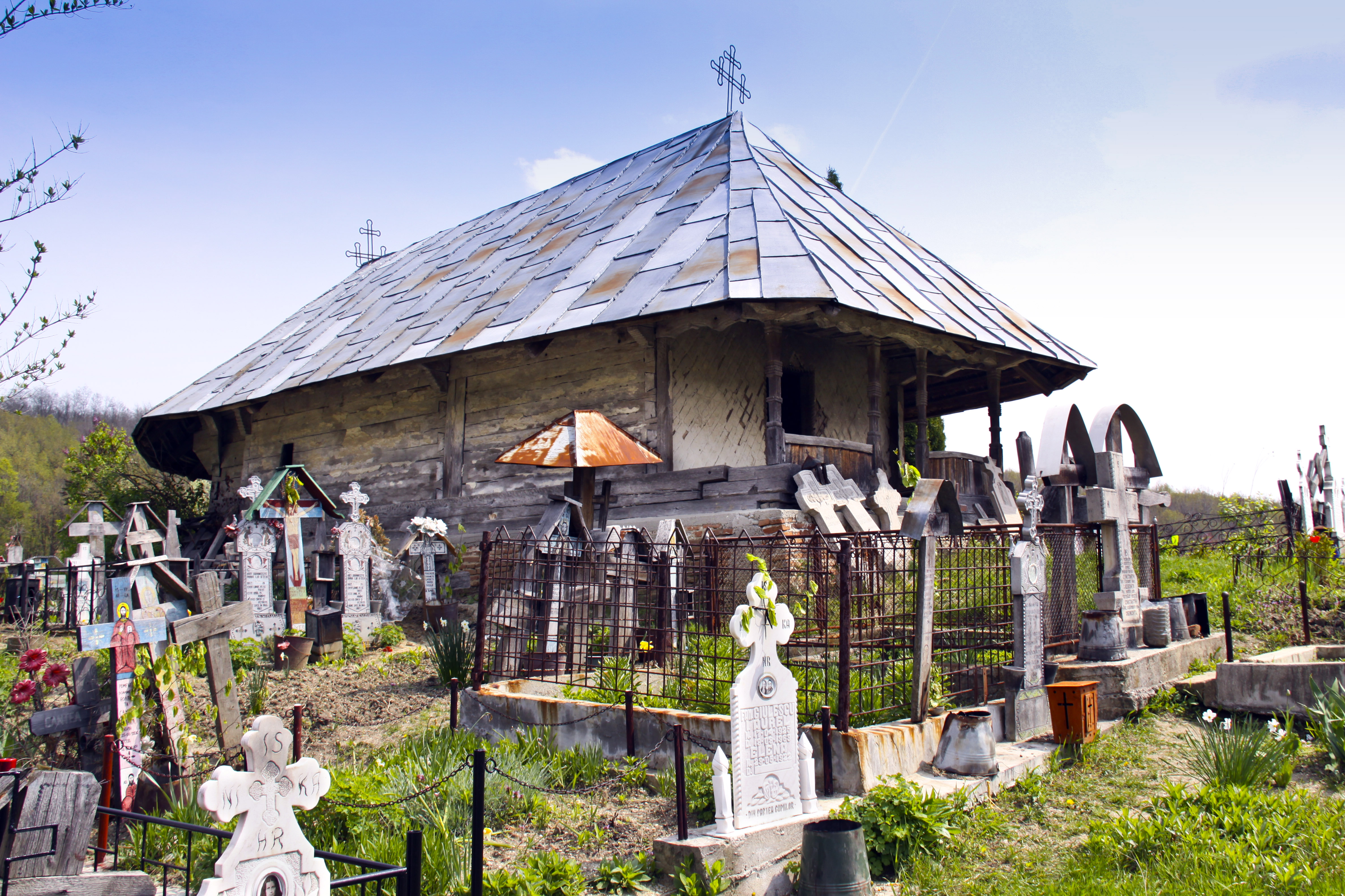 Amărăşti, Vâlcea county, Romania: the wooden church, North-West.